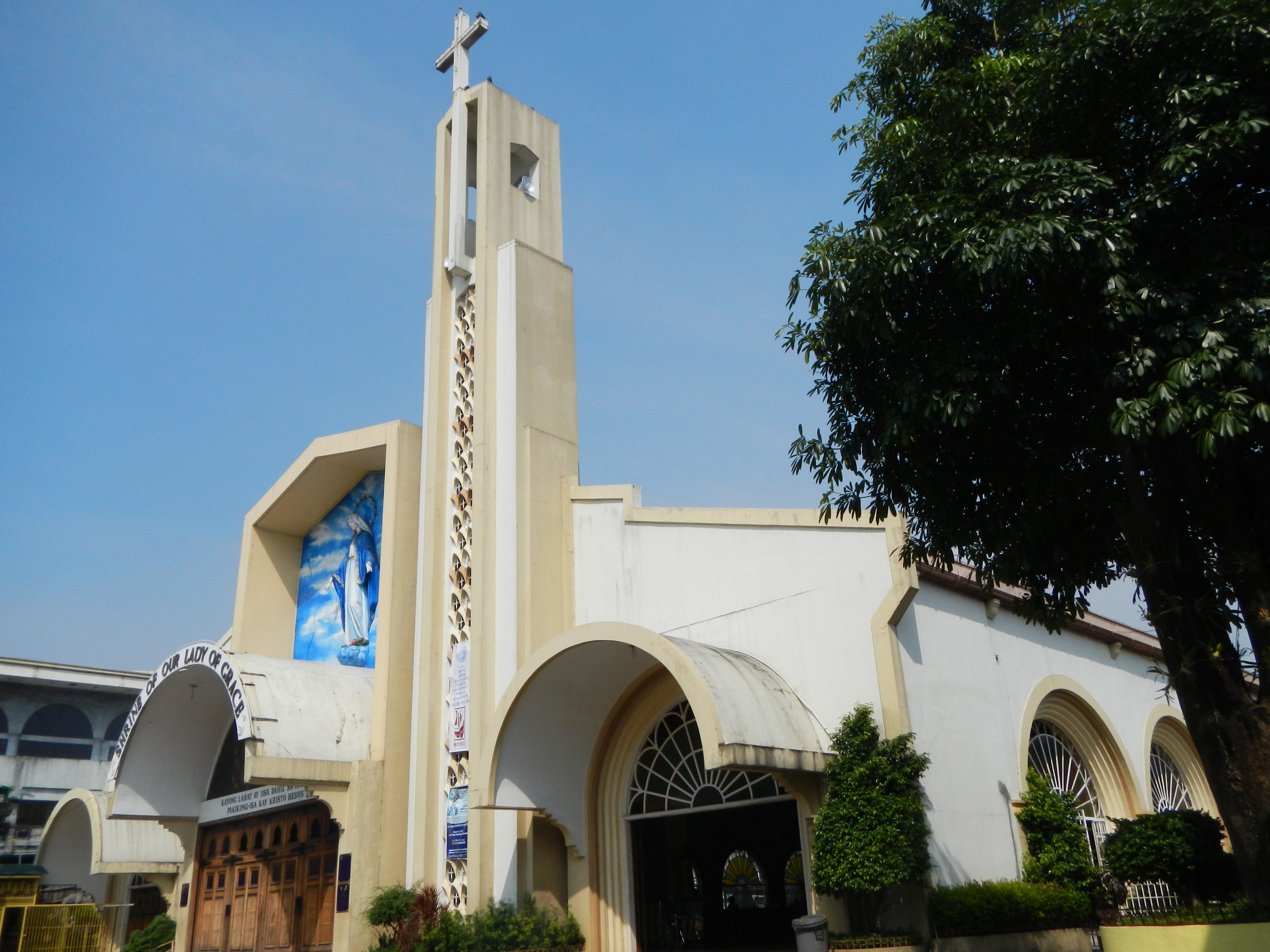 Diocesan Shrine of Our Lady of Grace (Grace Park)[1] Roman Catholic Diocese of Kalookan[2]